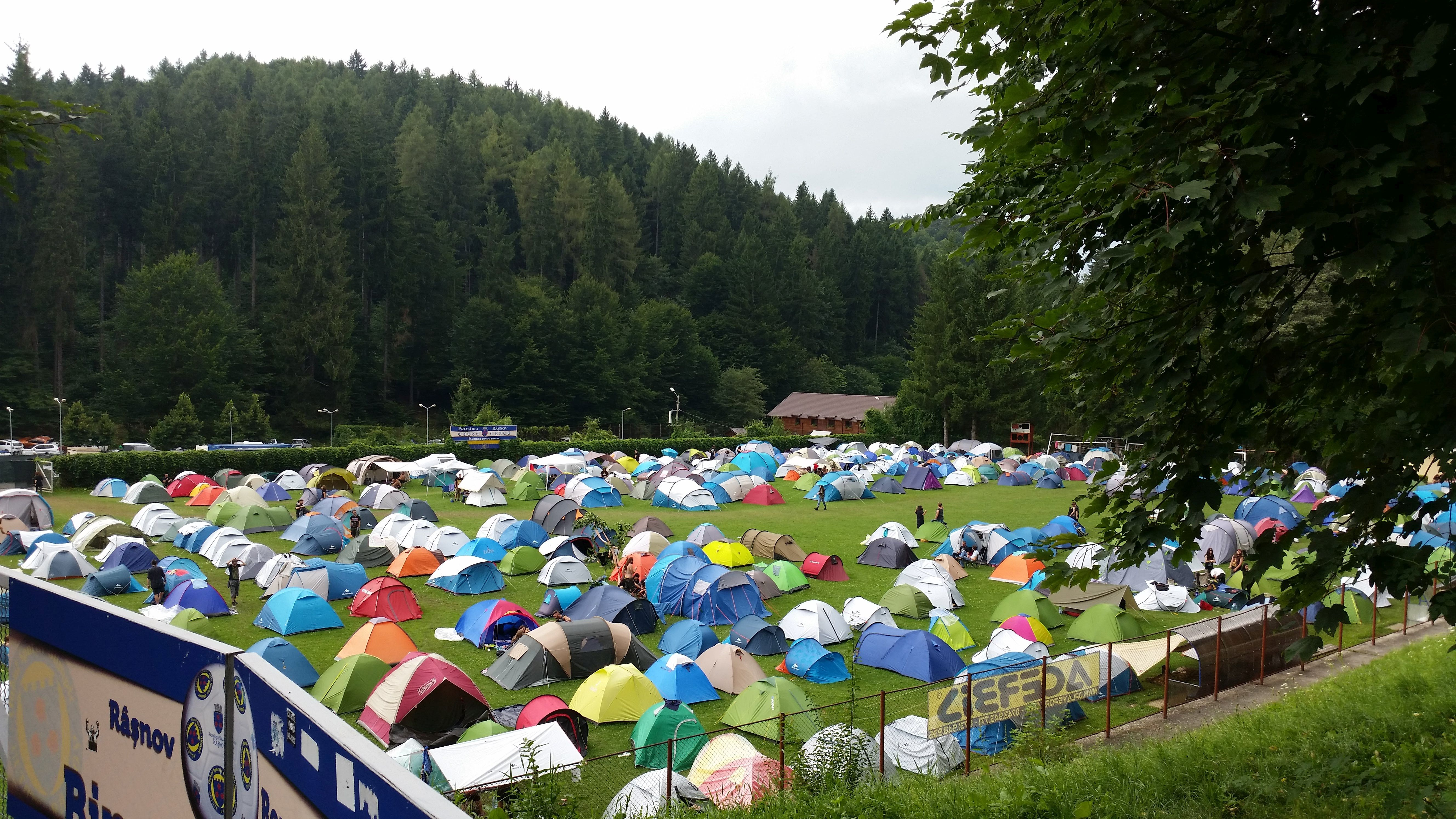 Temporary campsite in Râșnov, Romania, set for Rockstadt Extreme Fest 2019